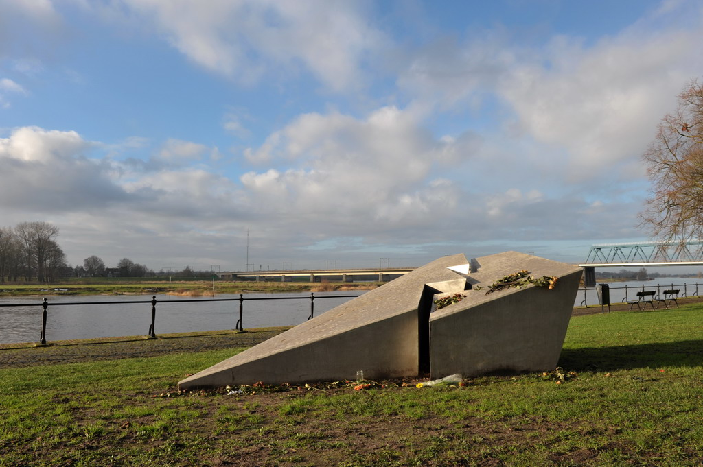 'Disturbed Life' (named after the so called diary Etty – A Diary (1983) of Jewish Holocaust victim Etty Hillesum). Made by Dutch artist Arno Kramer (Winterswijk 1945)